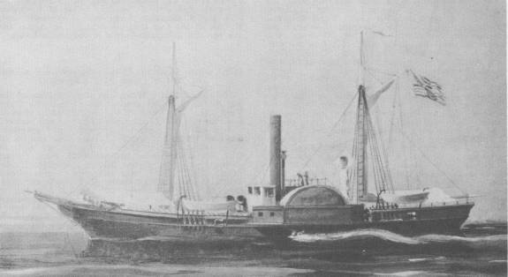 The side-wheel steamer Water Witch. (NH 60353)